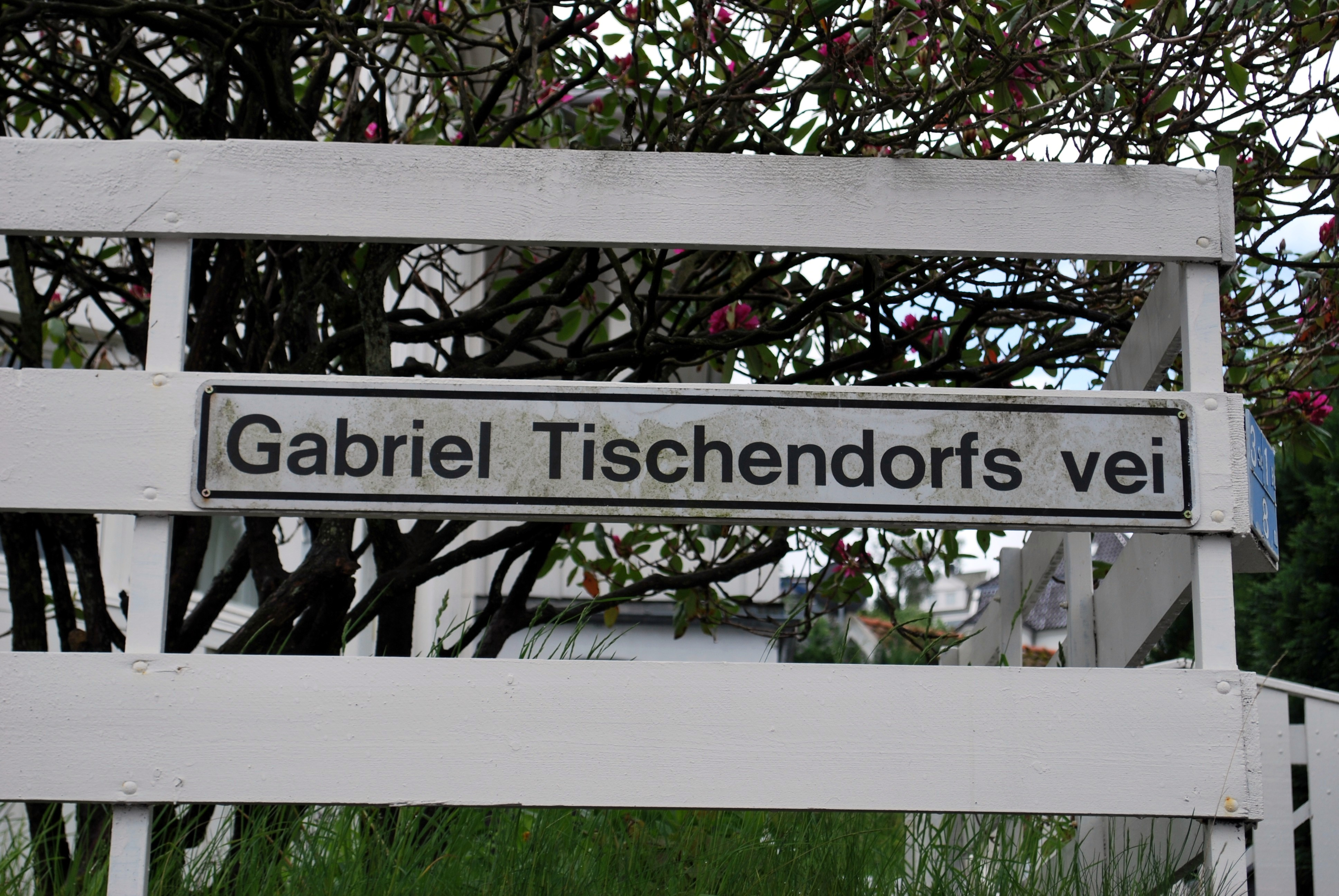 Street sign at Damsgård in Bergen. The street is named after Norwegian composer and organist Gabriel Tischendorf (1842-1932).